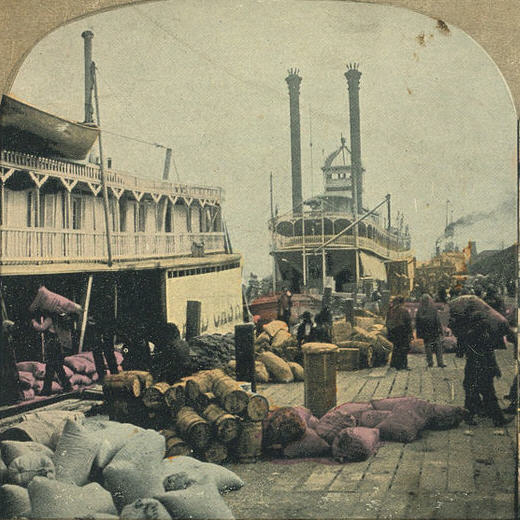 Steamer loading cotton in Mobile, Alabama.